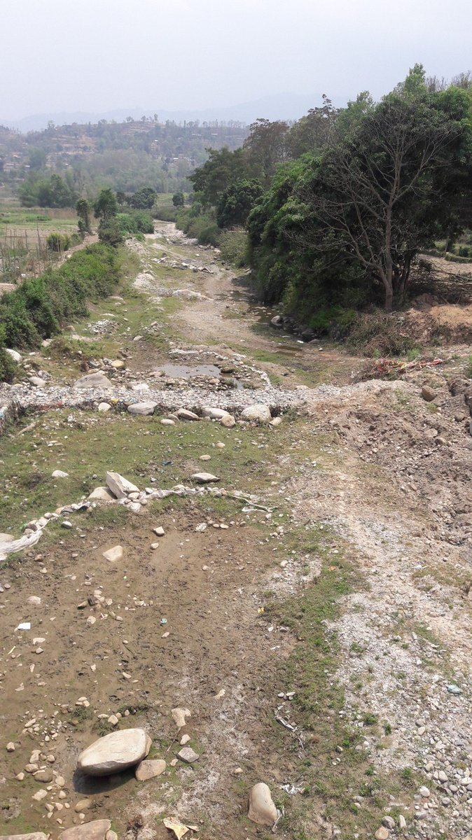 Dying water resources in panchkhal